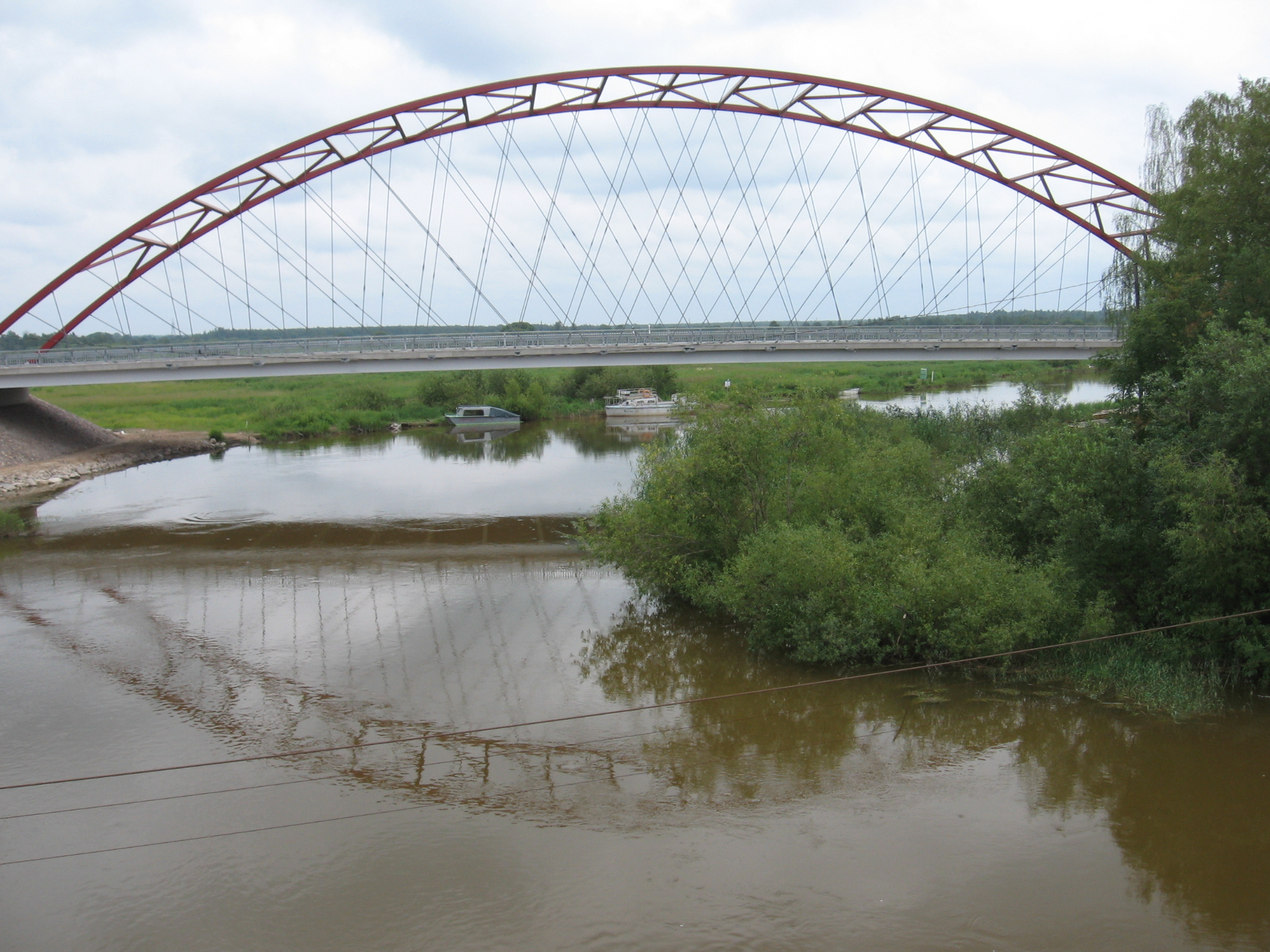 Ranna-Jõesuu new bridge over the Emajõgi